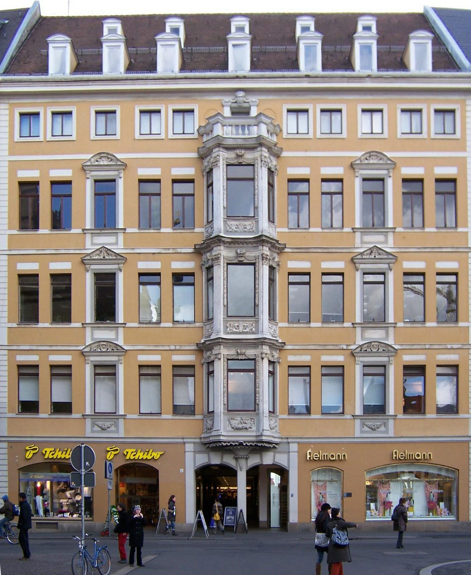 Königshaus ("Kings's House", built in 1706/07), baroque city house in Leipzig, Saxony, Germany.